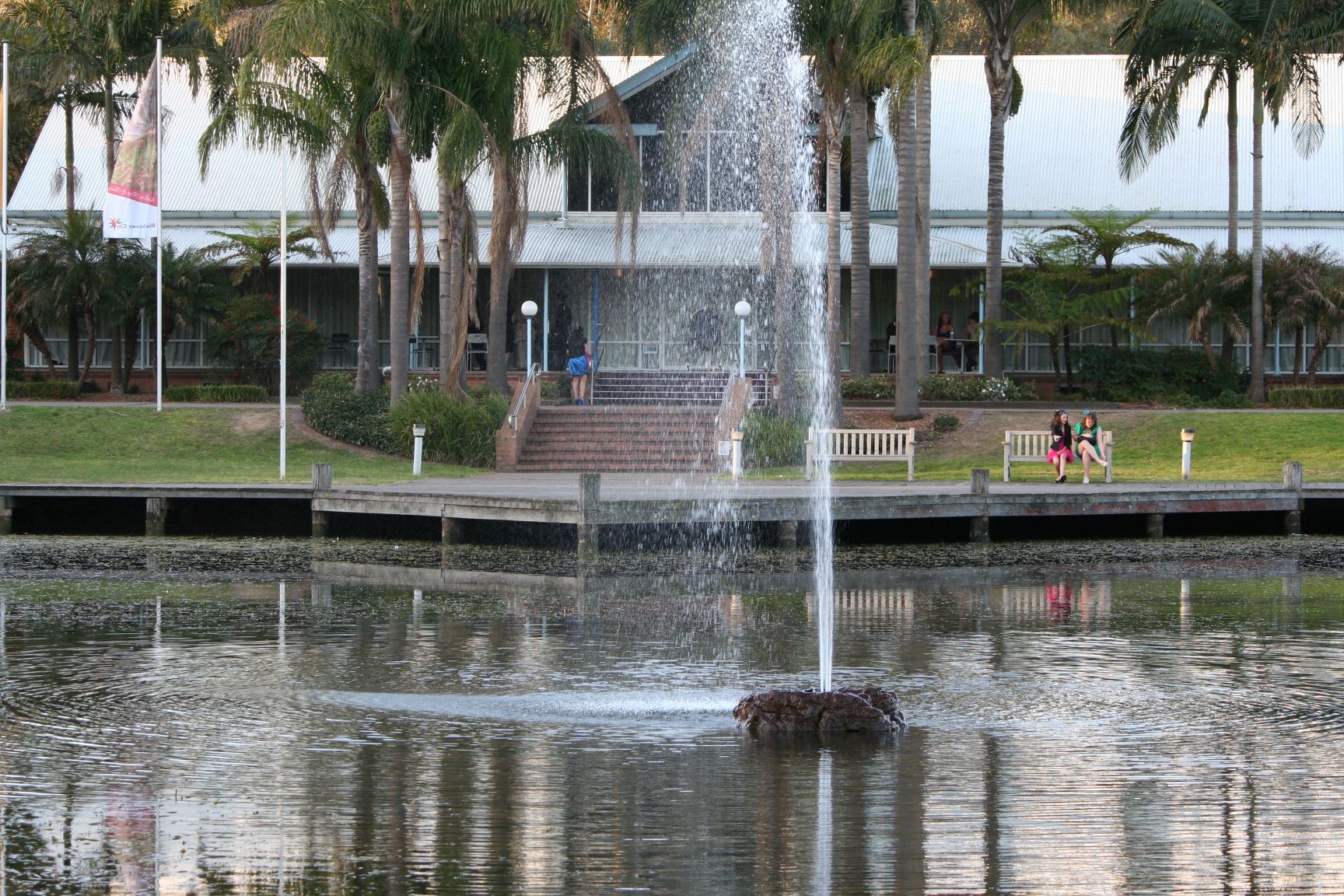 Colbee Center